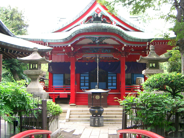 Sean Wilson 2005, Inokashira Park, Shrine to Goddess